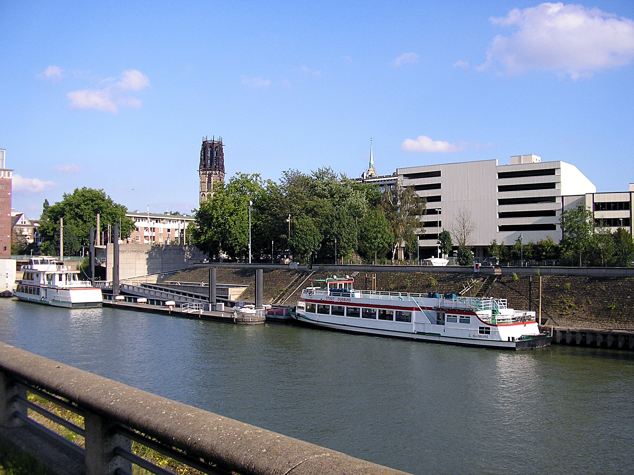 Ship station Duisburg, Germany